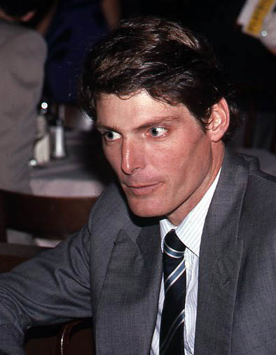 Photo to Christopher Reeve being interviewed at cast party after opening night of Marriage of Figaro at The Circle in the Square Theatre in NYC